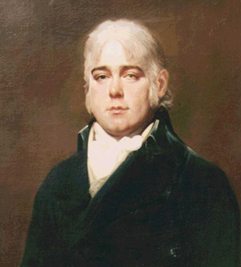 John Powell Roberts (1769-1849), who in 1814 having become the heir of his elder brother Arthur Annesley Powell (d.1813), adopted the surname and arms of Powell, by Act of Parliament.[1] The uncle of both brothers was John Powell (d.1783) of Kingsgate and of nearby Quex House (or Quekes) in Birchington, who died without progeny and bequeathed his estates to his eldest nephew on condition he and future heirs should adopt the surname and arms of Powell.